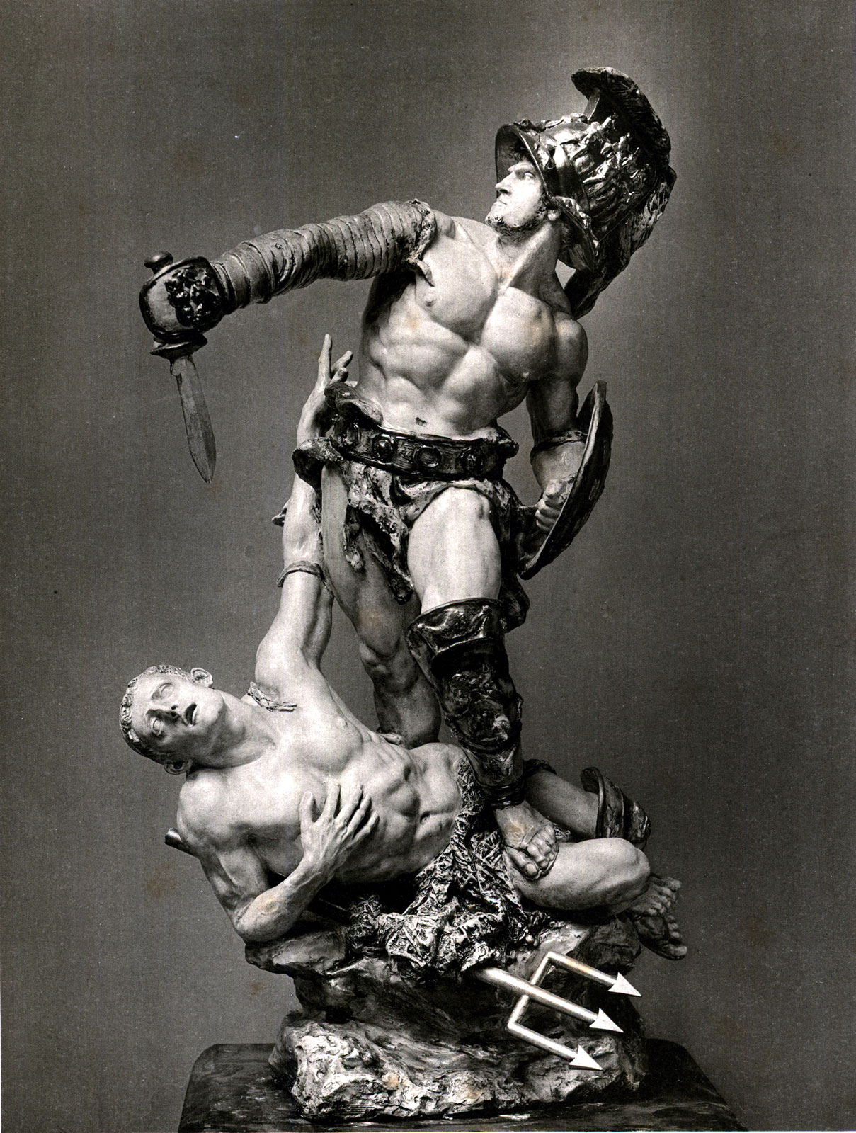 Victor Tilgner (1844-1896), Gladiator und besiegter Sklave, Gips-Bozzetto, H: 96cm, B: 64cm,T: 40cm